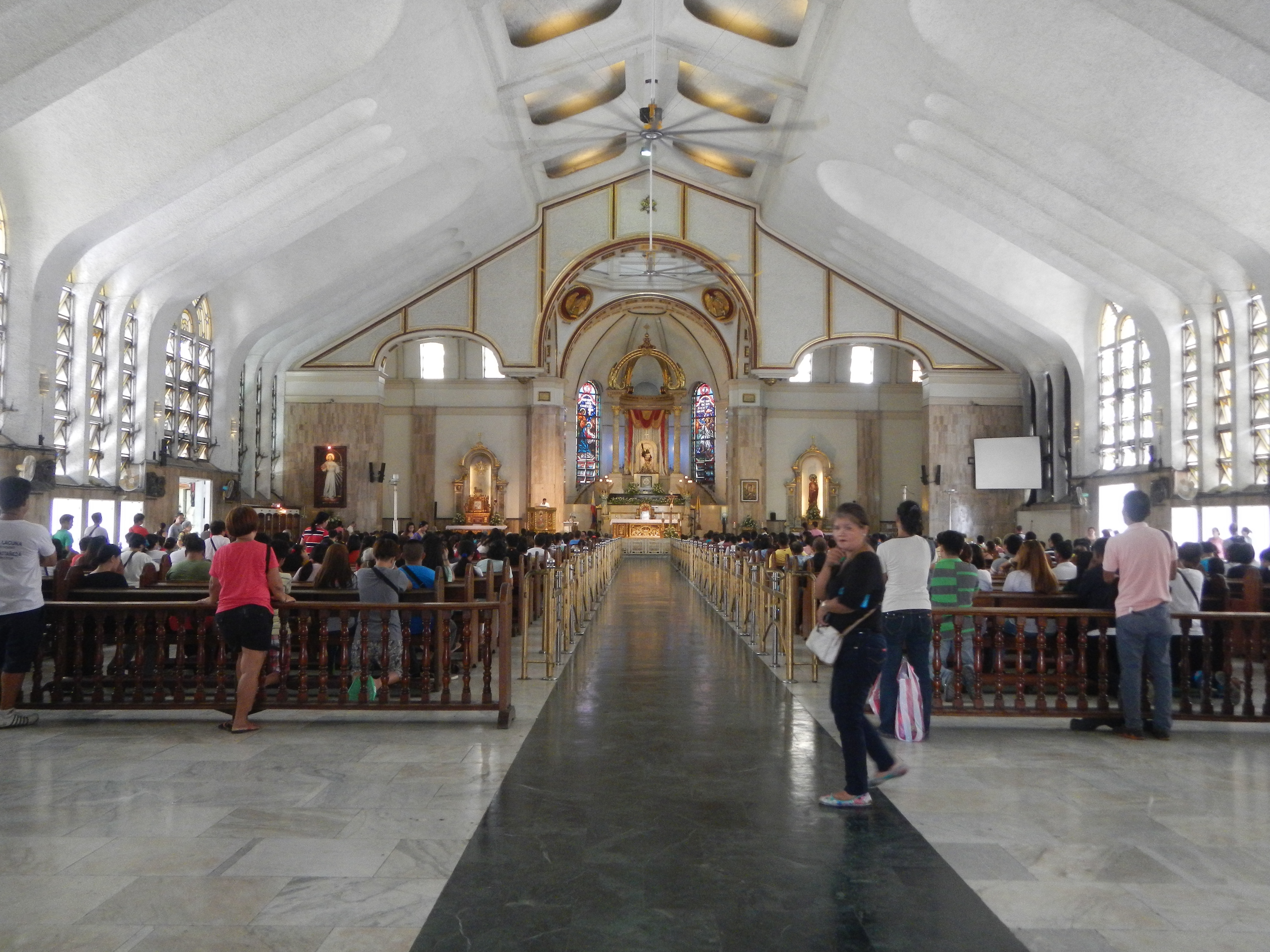 Plaza Miranda Quiapo Church, Quiapo, Manila, Legislative districts of Manila, City of Manila.